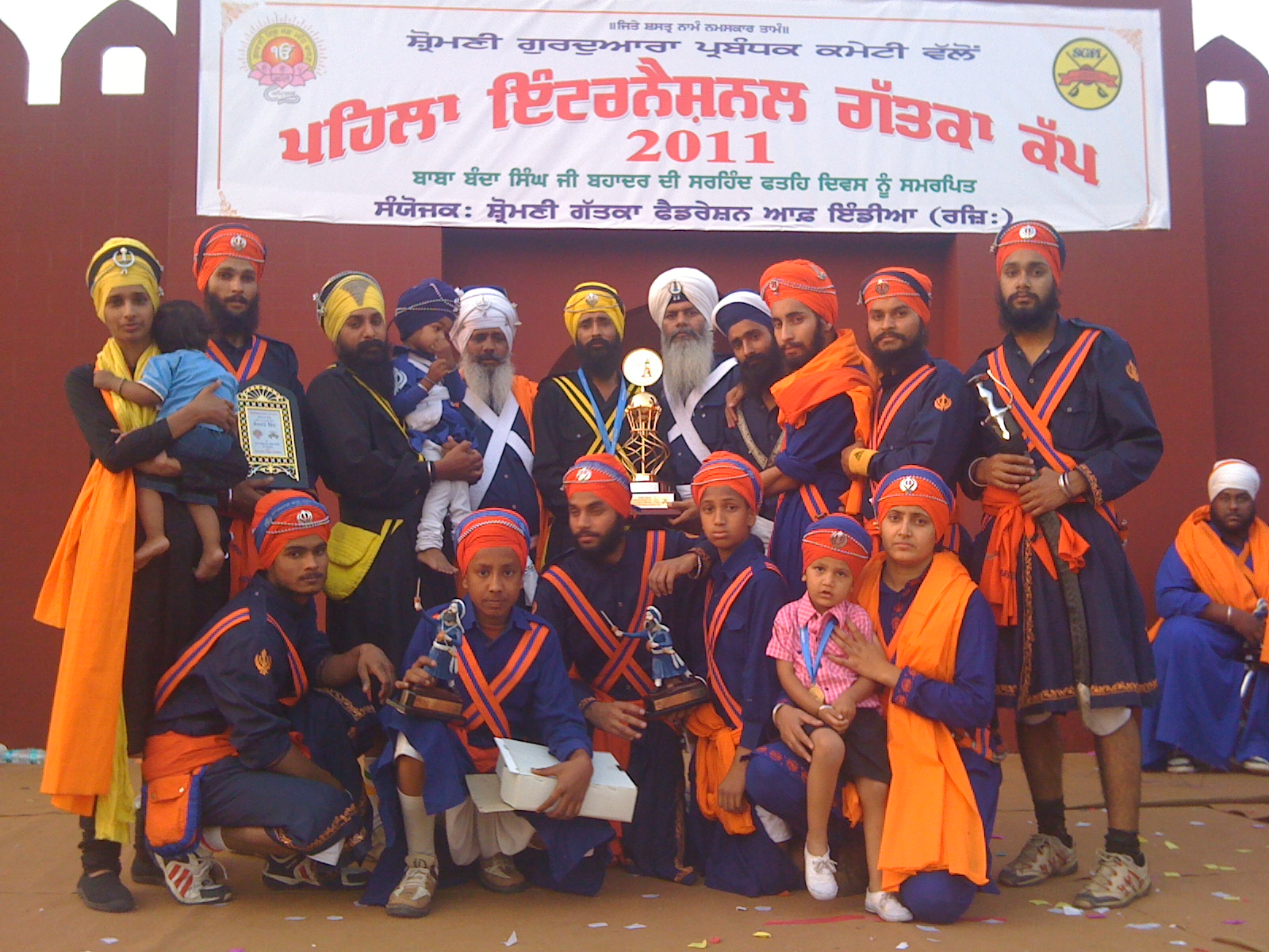 punjabi